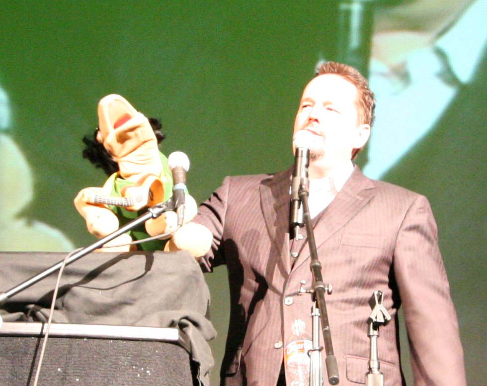 Terry Fator appears at the "Poncan Theater" in Ponca City, Oklahoma on May 6, 2008.